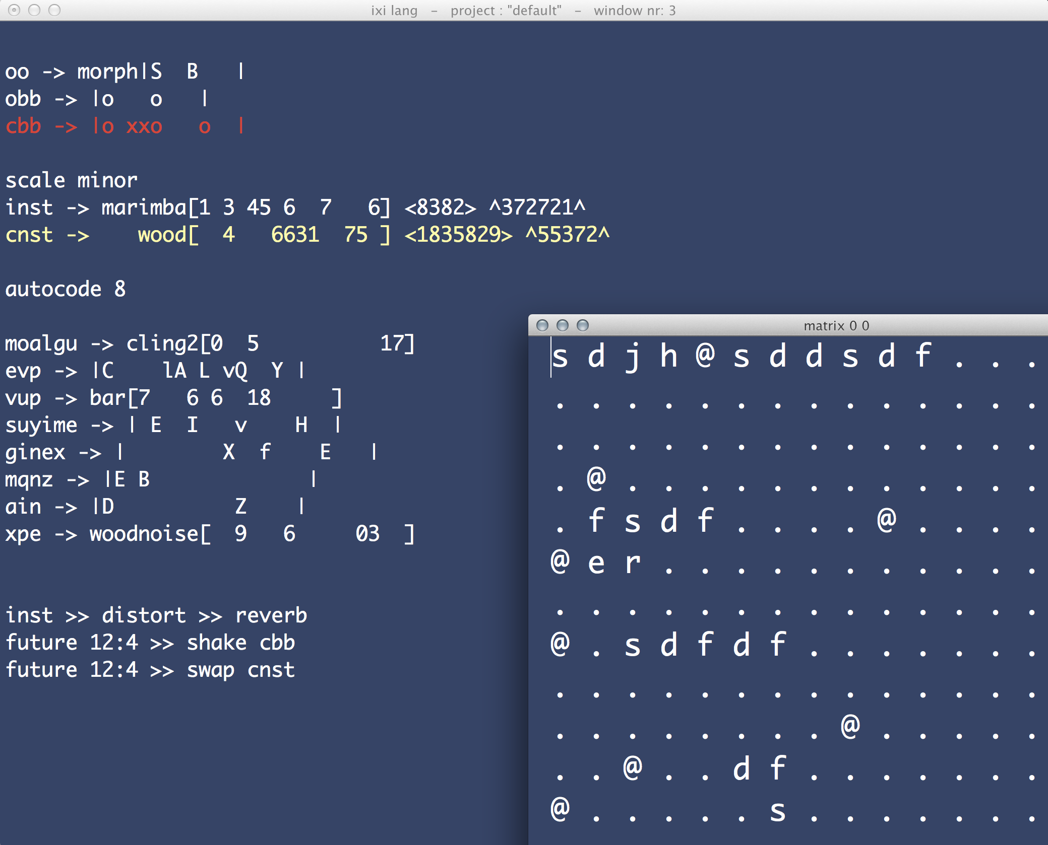 a screenshot of the ixi lang live coding language